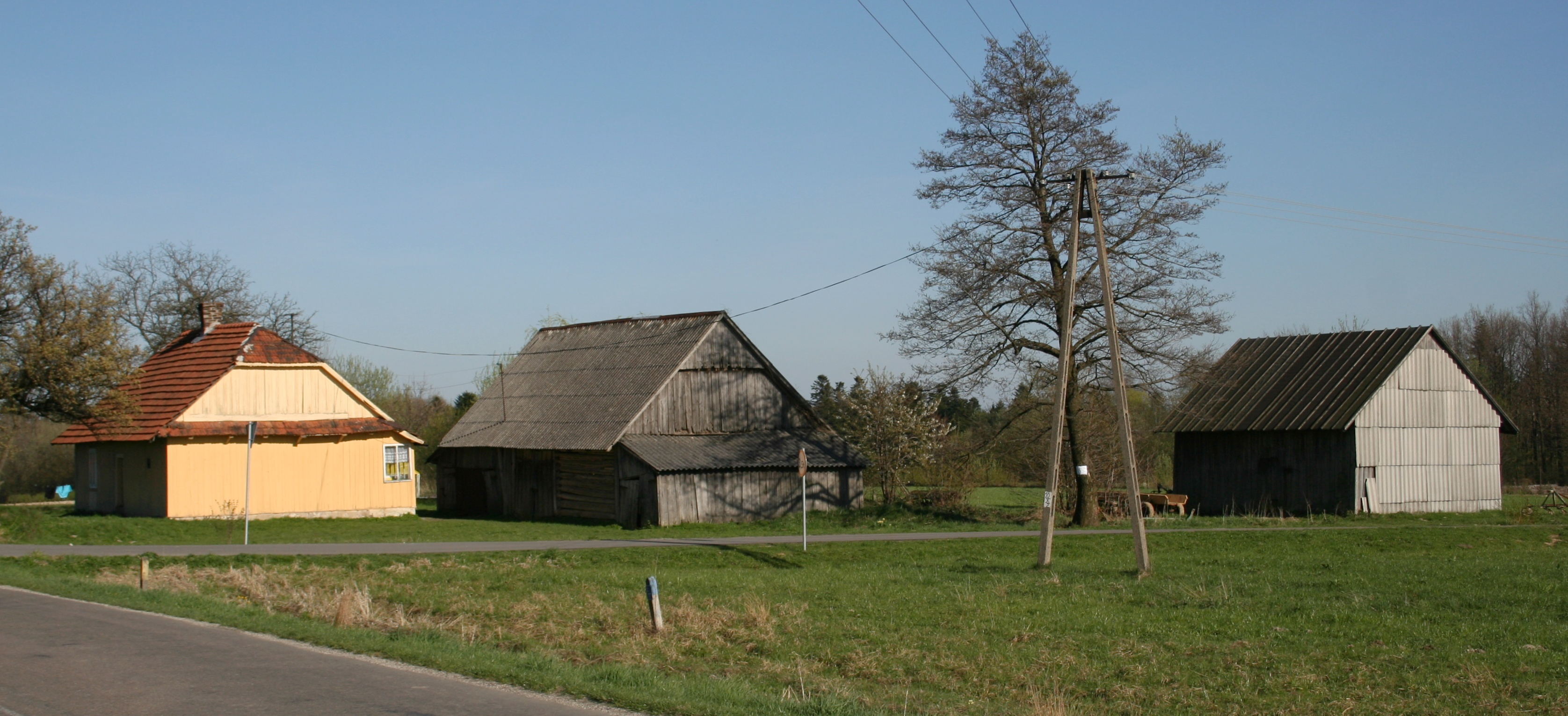 Wyręby, Poland.